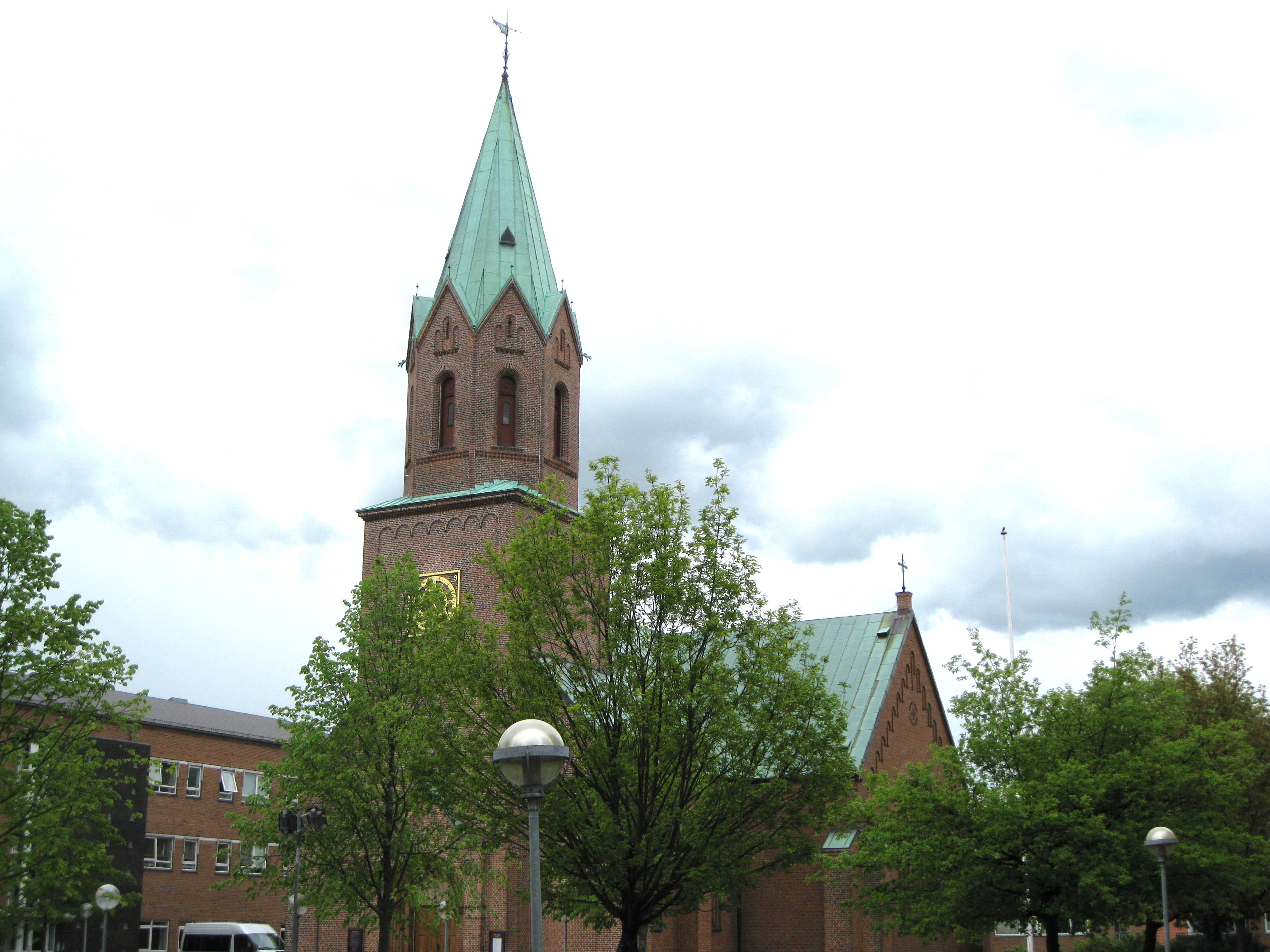 The church "Silkeborg Kirke" in the town "Silkeborg". The town is located in Middle Jutland, Denmark.